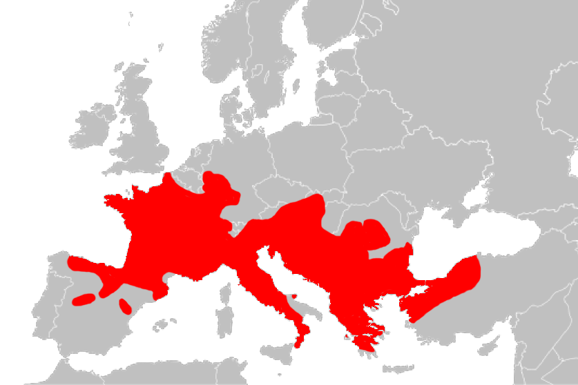 Podarcis muralis range map.